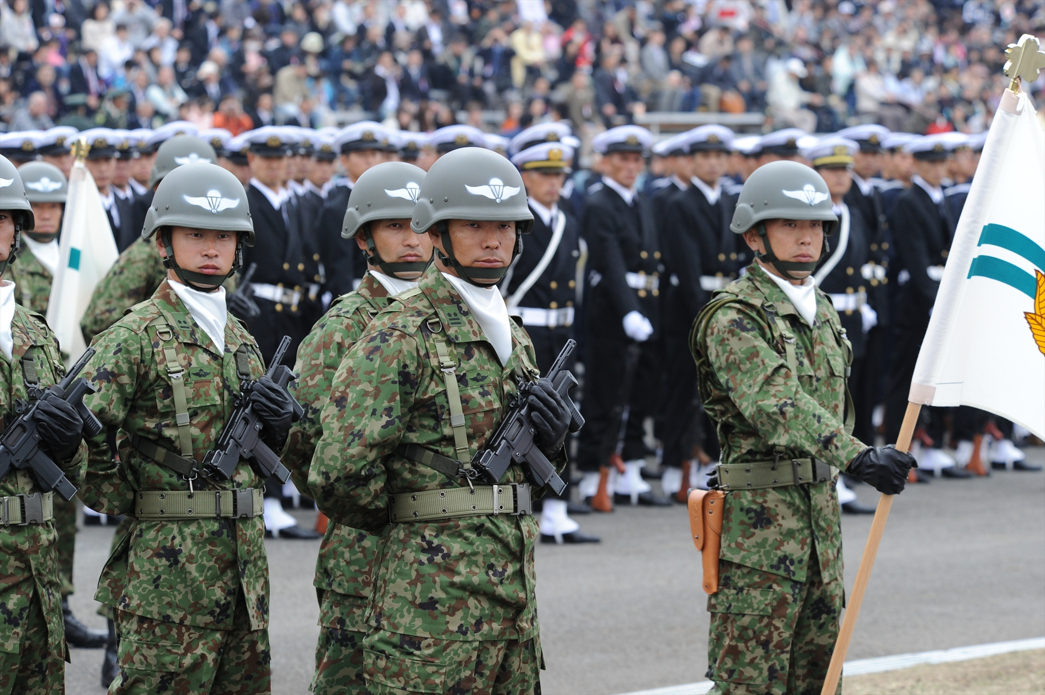 Title ９ｍｍ機関拳銃10_048.JPG Album 装備 ９ｍｍ機関拳銃（平成２２年度自衛隊観閲式）